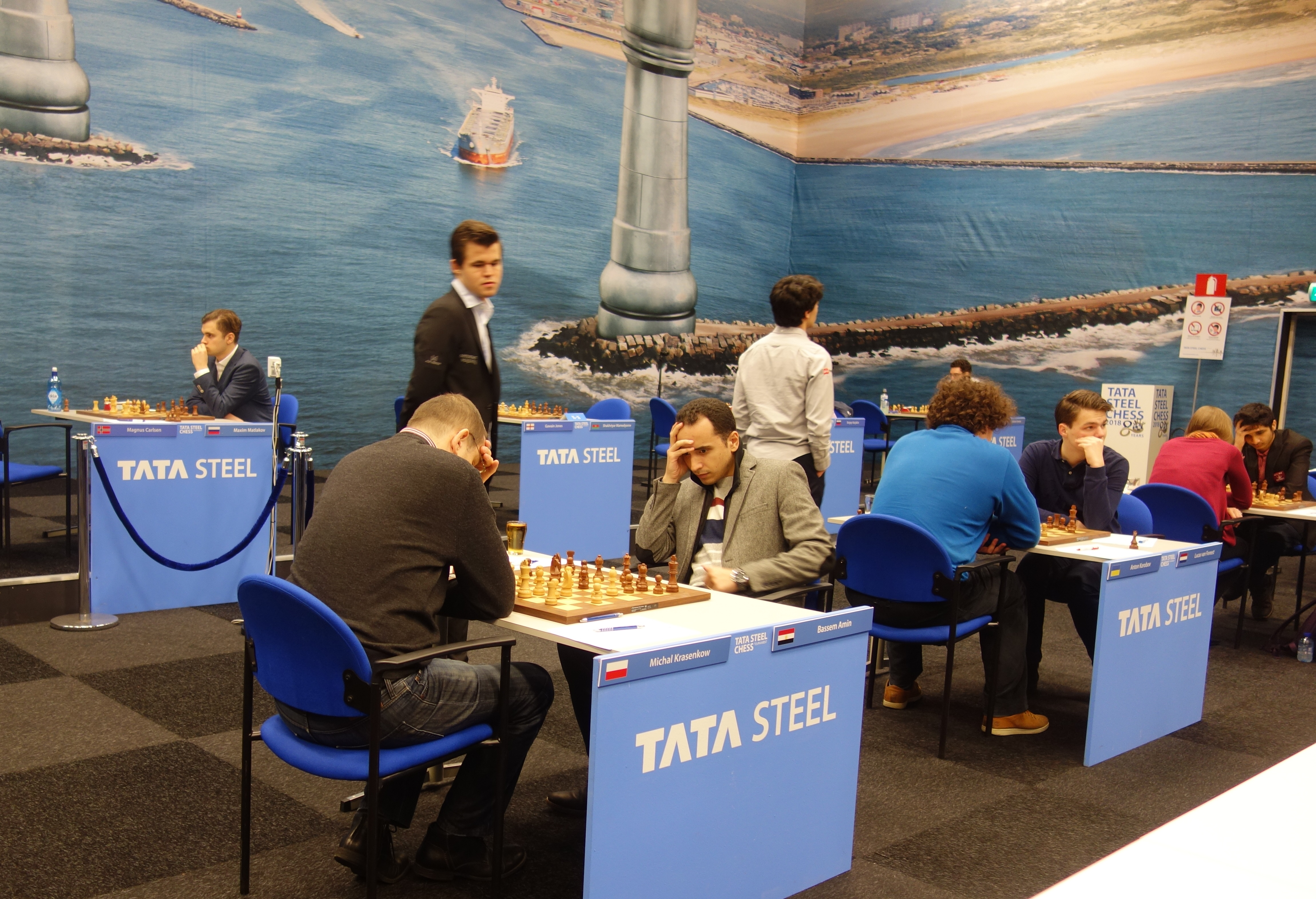 Tata Steel chess tournament 2018. Front row, left to right: Michal Krasenkow vs. Bassem Amin, Anton Korobov vs. Lucas van Foreest, Olga Gyria vs Vidit Santosh Gujrathi. Standing: Magnus Carlsen.